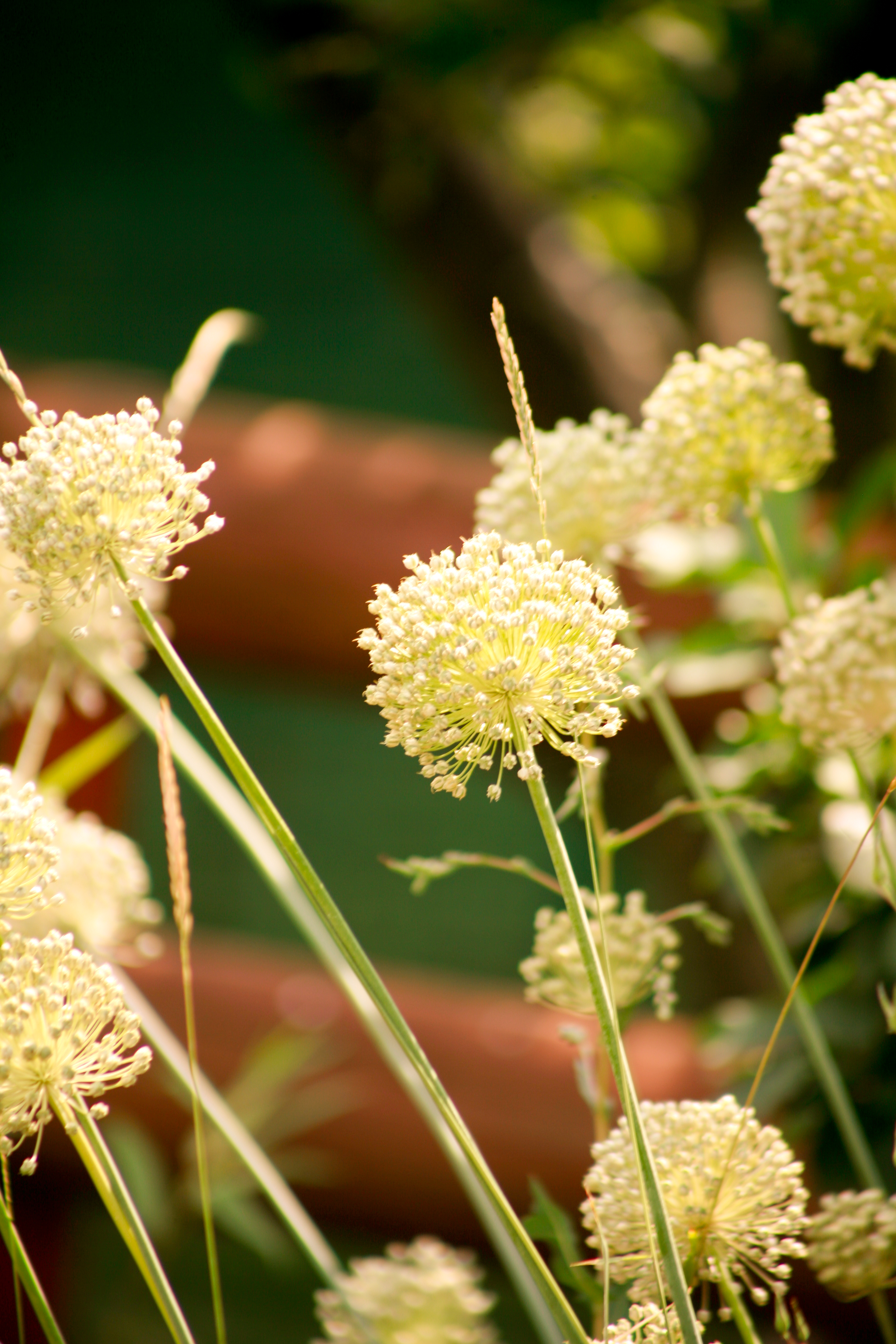 flowers - garlic